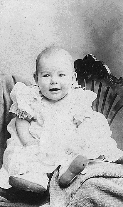 Ernest Hemingway's Baby Picture, ca. 1900. Photograph of Ernest Hemingway as a baby. From the National Archives. Image:ErnestHemingwayBabyPicture.gif